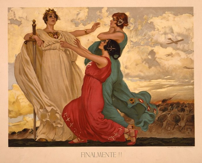 World War I poster by Leopoldo Metlicovitz (1868-1944). "Finalmente!!" ("At last!!"). Library of Congress description: "Poster shows a woman in a red gown (Trieste) and a woman in a green gown (Trento) kneeling before a woman in white gown and crown and holding a sword (Italy); in background soldiers march to battle and planes fly overhead."